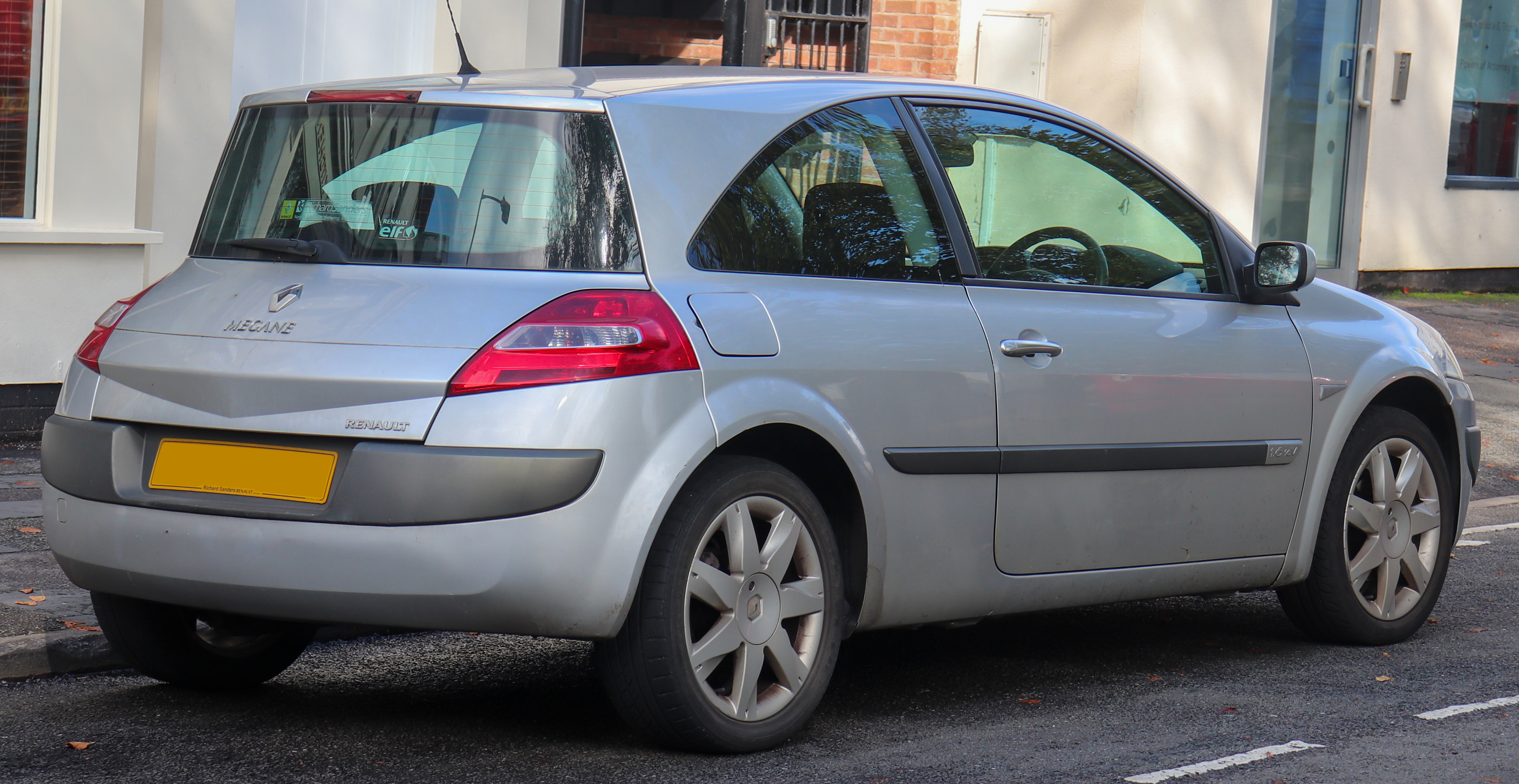 2007 Renault Megane Dynamique 1.6 Rear Taken in Leamington Spa